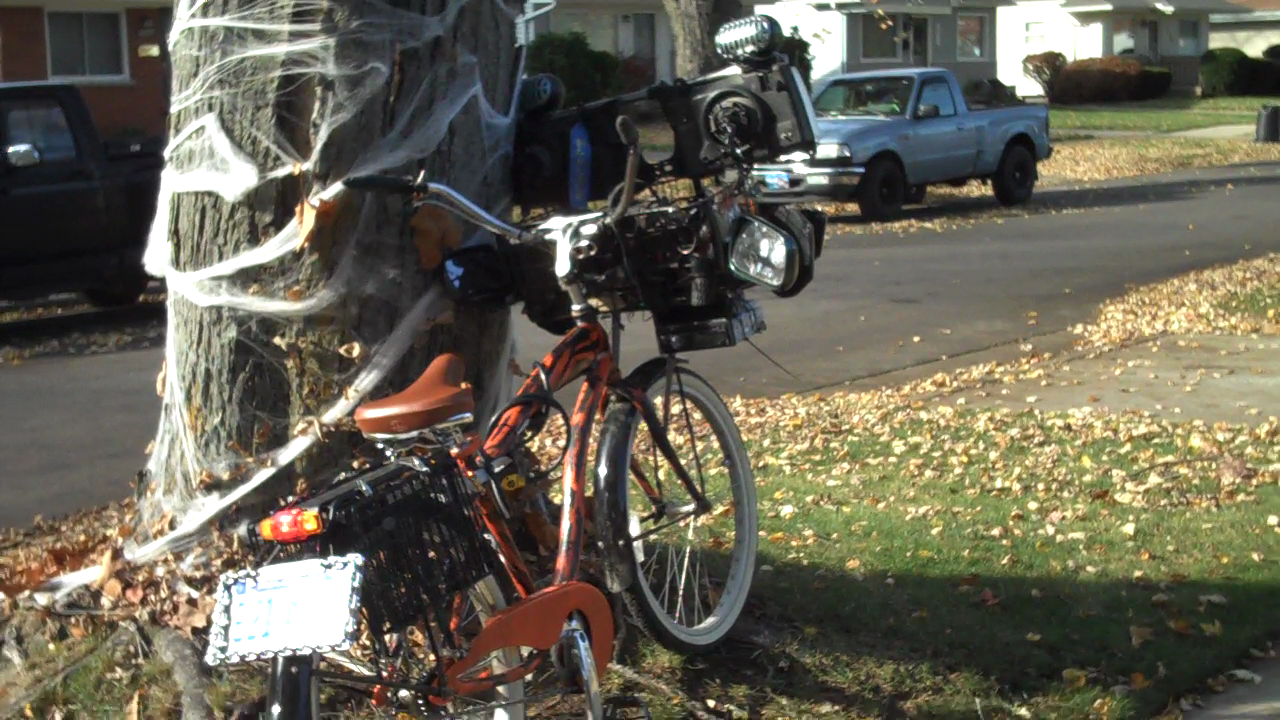 A bicycle equipped with a car audio head unit and 4 ohm computer speakers on top of headlight shells.